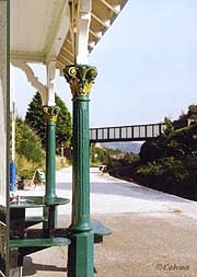 Photo by , Plockton railway station